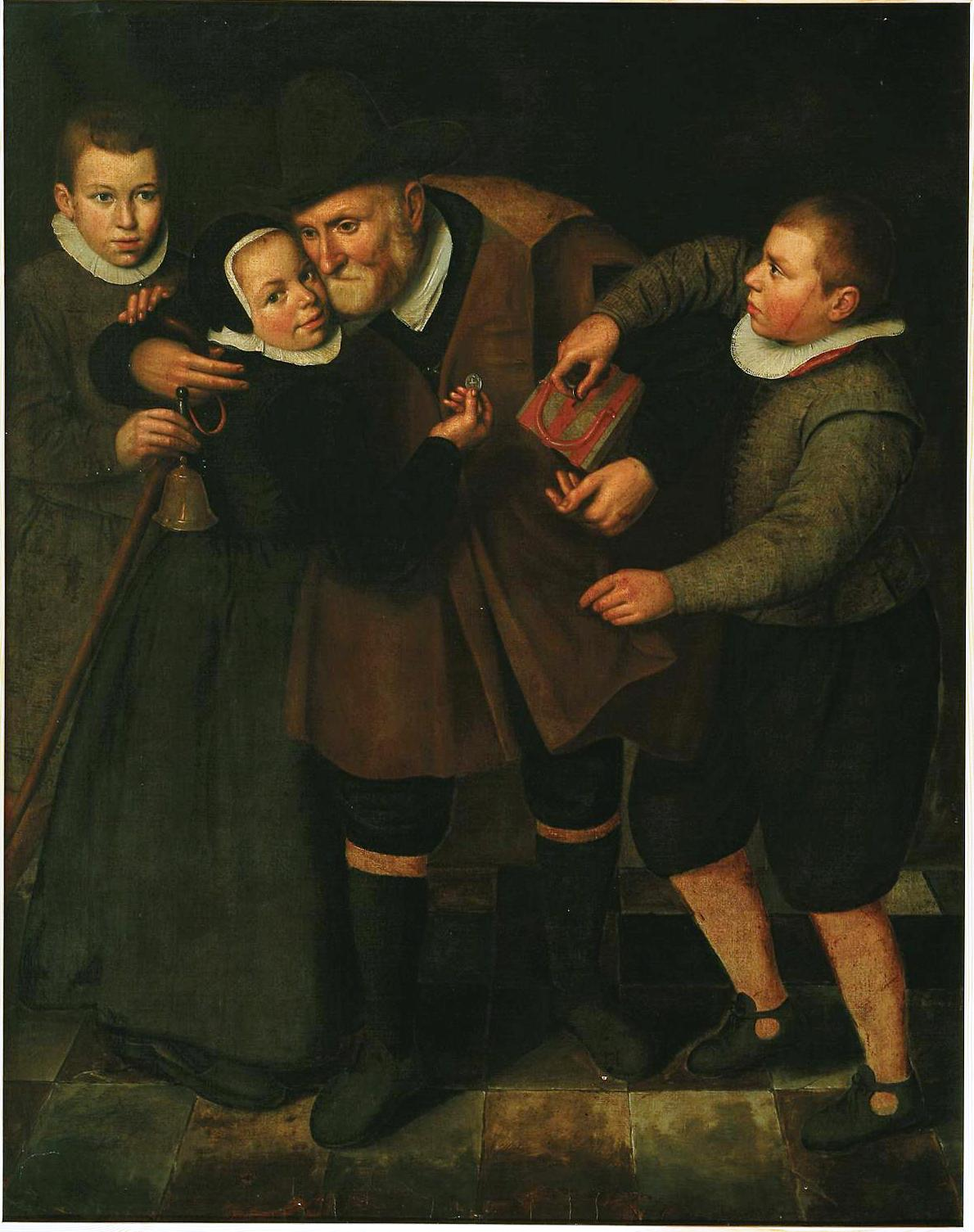 Old man grateful for alms